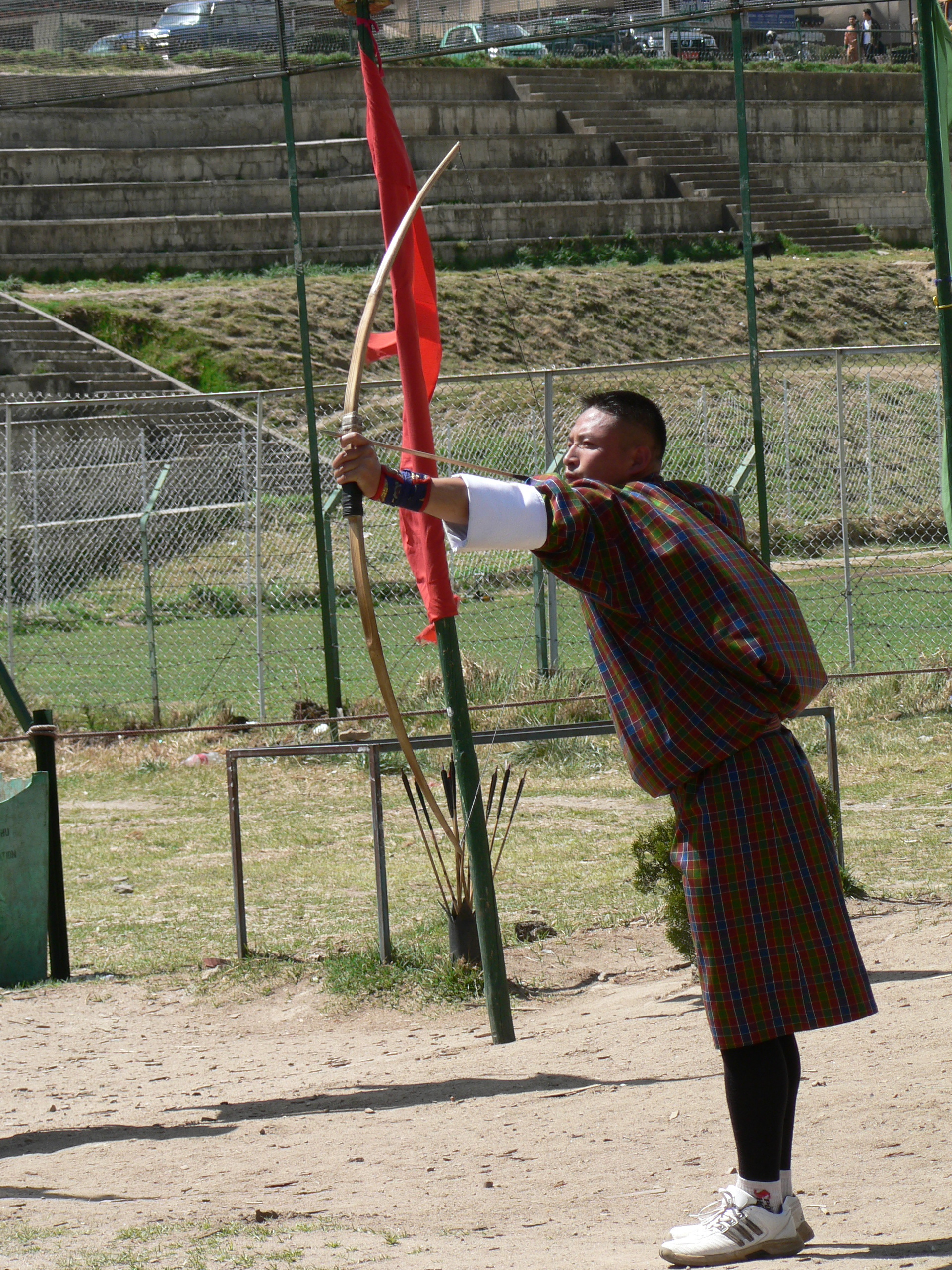 Archer, Thimphu